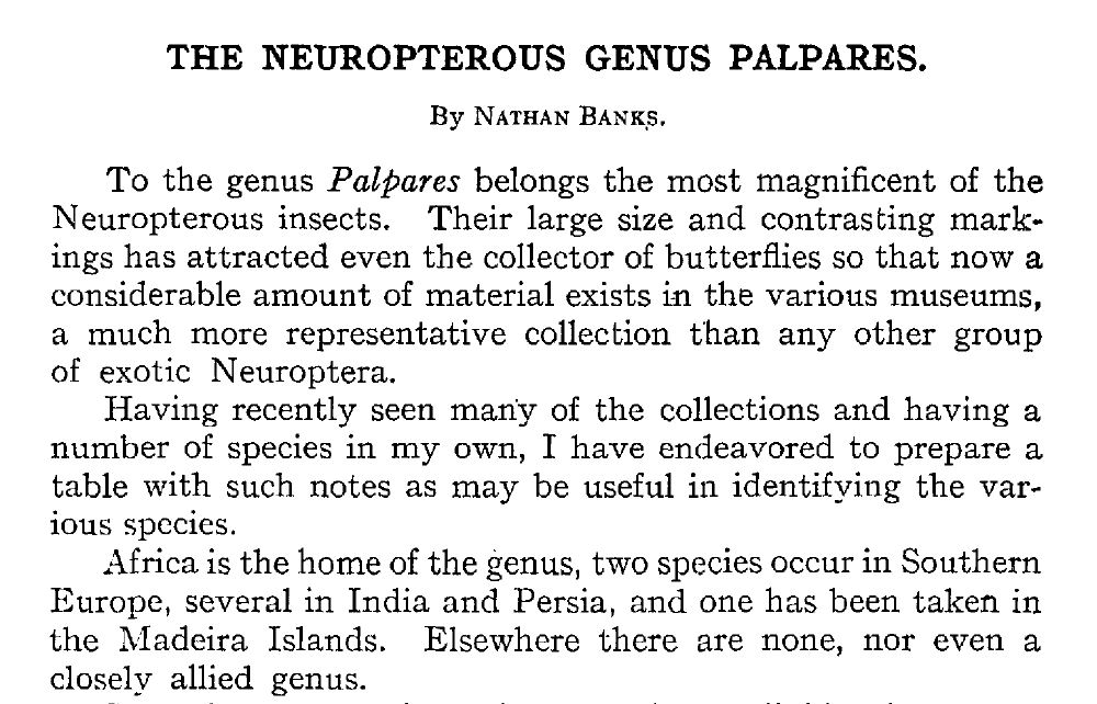 Introductary paragraphs of the paper: Banks, N., 1913. The neuropterous genus Palpares. Annals of the Entomological Society of America, 6(2), pp.171-191.